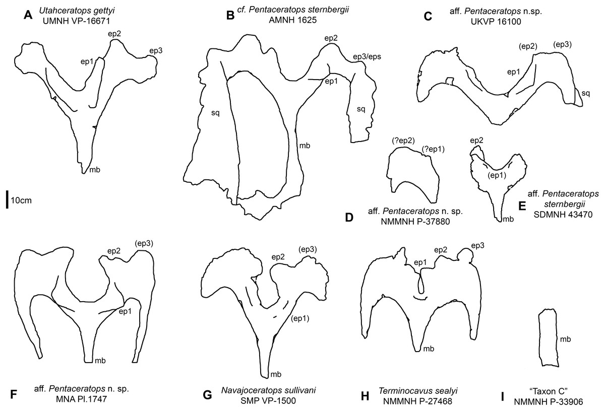 Parietal relative sizes among specimens of Pentaceratops, and related chasmosaurines. Parietals of chasmosaurine taxa mentioned in the main text, all in dorsal view and to scale with each other to show relative size. Taxa shown in stratigraphic order (with the exception of (E), SDMNH 43470). (A) Utahceratops gettyi referred specimen UMNH VP-16671; (B) cf. Pentaceratops sternbergii referred specimen AMNH 1625. Aff. Pentaceratops sp. referred specimens (C) UKVP 16100; (D) NMMNH P-37880, and (F) MNA Pl. 1747; (E) Aff. Pentaceratops sternbergii referred specimen SDMNH 43470; (G) Navajoceratops sullivani holotype SMP VP-1500; (H) Terminocavus sealeyi holotype NMMNH P-27468. (I) Chasmosaurinae sp. “Taxon C” specimen NMMNH P-33906. ep, epiparietal loci numbered by hypothesized position (no epiossifications are fused to this specimen); mb, median bar. Line drawings adapted from Longrich (2014), and Sampson et al. (2010). Scalebar = 10 cm.